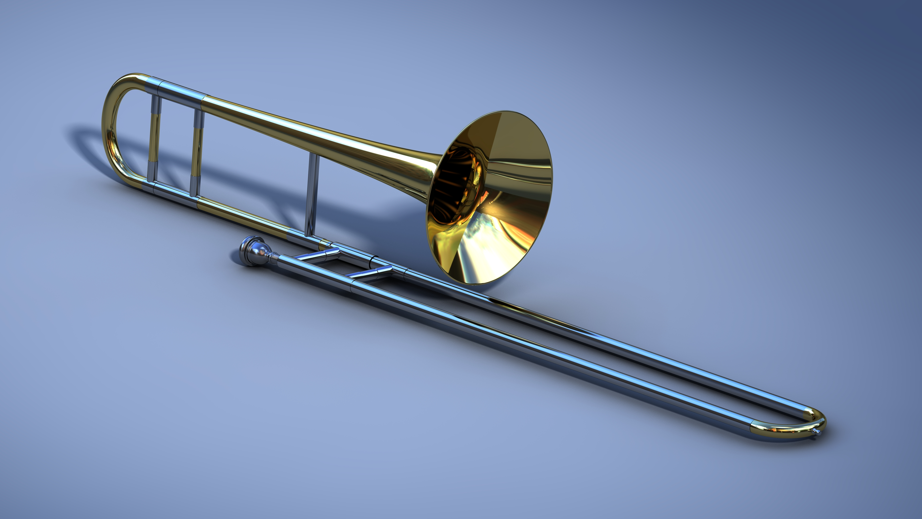 Tenor slide trombone (3D model)